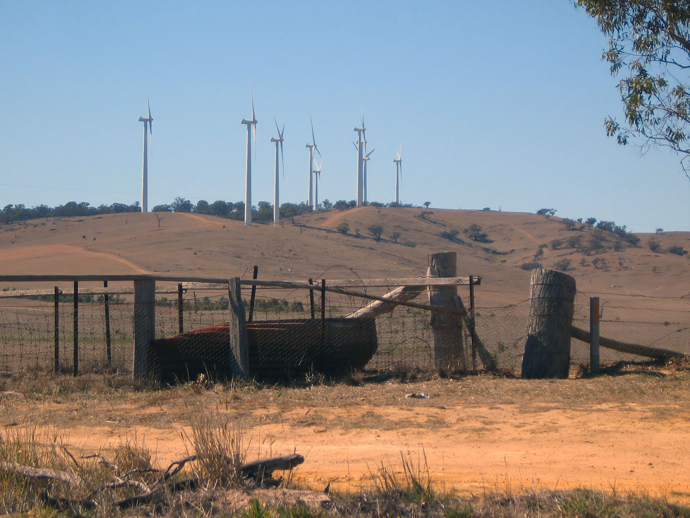 View of several wind turbines and surrounding farmland at the Challicum Hills Wind Farm, Victoria (Australia). The 35 wind turbines at the farm can generate over 52.5 MW of electricity. The land between the turbines continues to be used for farming.